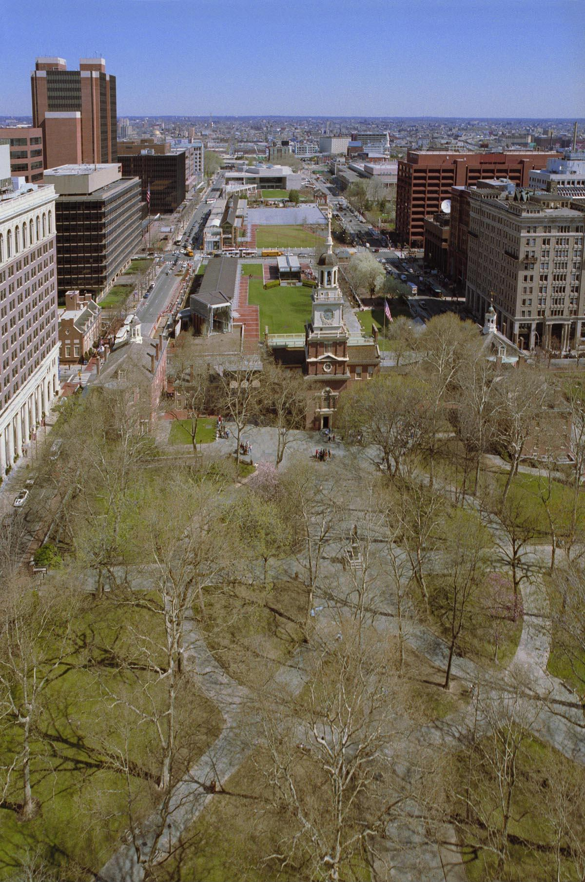 Overhead view of Independence Mall with Independence Square in the foreground in Independence National Historical Park, located in Philadelphia.